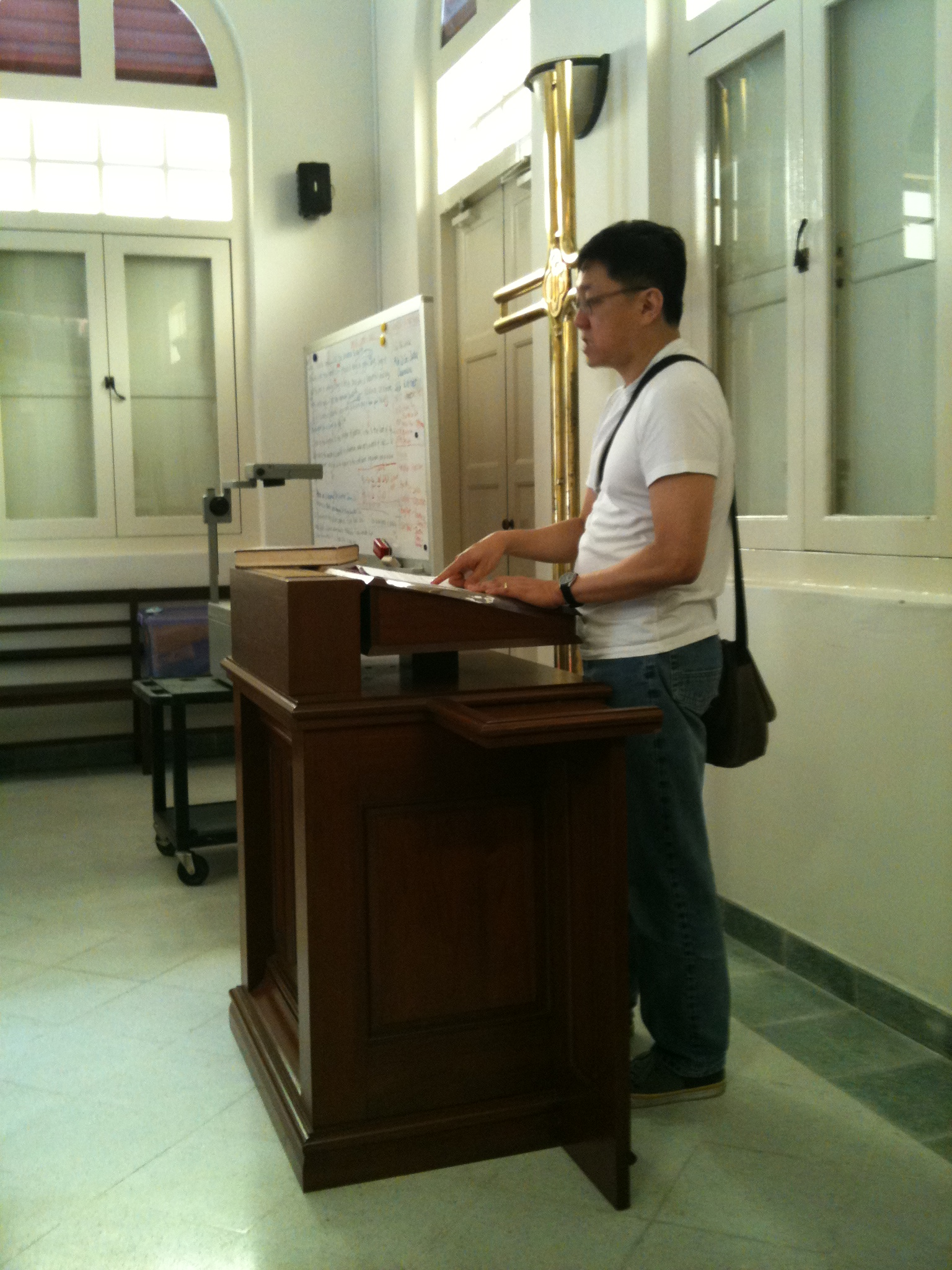 The old pulpit of Telok Ayer Chinese Methodist Church, Singapore, in an upper room of the church. This pulpit was used by Dr. John Sung, an evangelist from China, when he conducted revival meetings in the church in 1935.